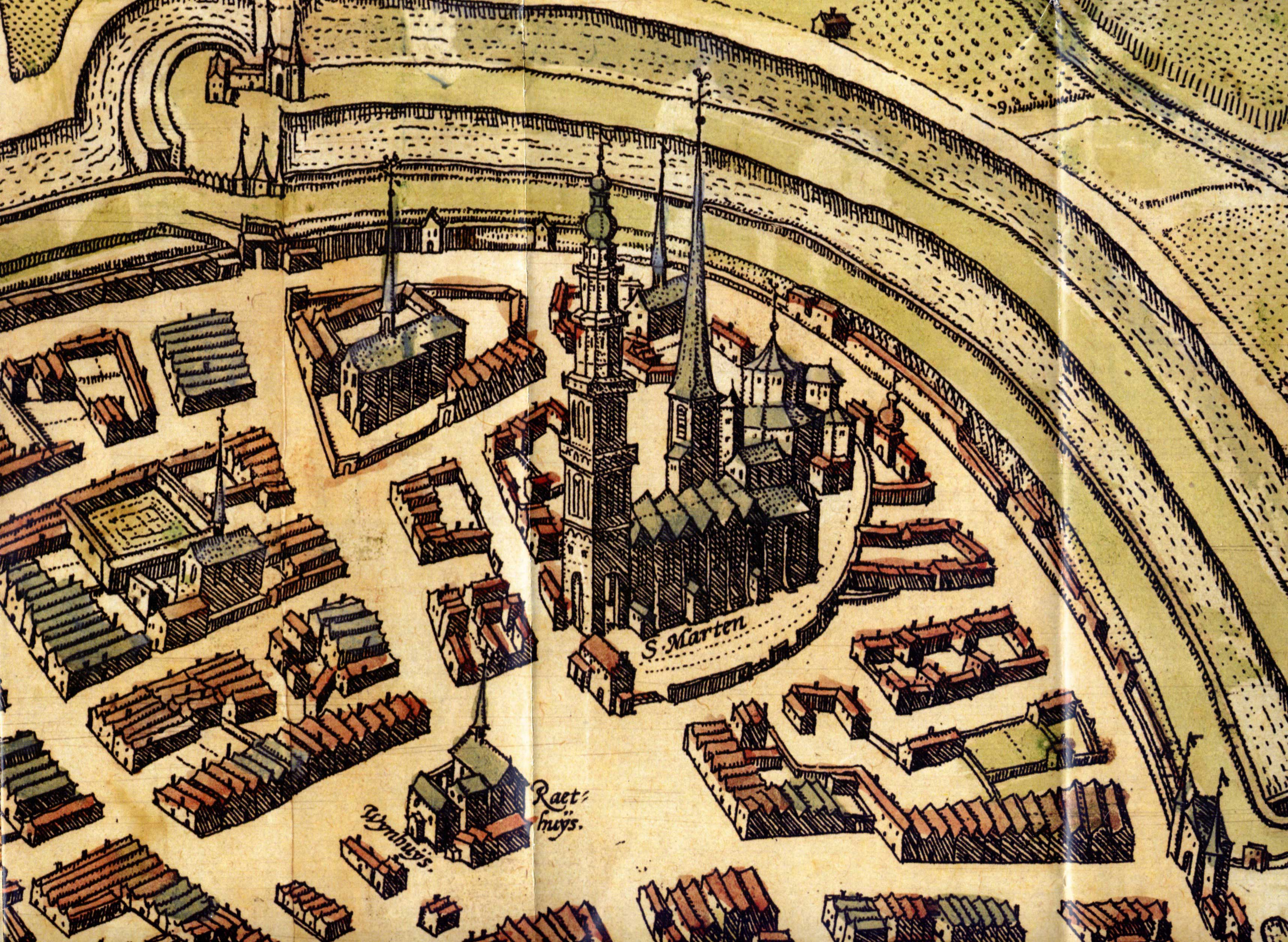 Detail of a map of Groningen from the cityatlas by Georg Braun and Frans Hogenberg 1575 with e.g. Martinichurch, Fraterhuis and Sint-Walburgchurch